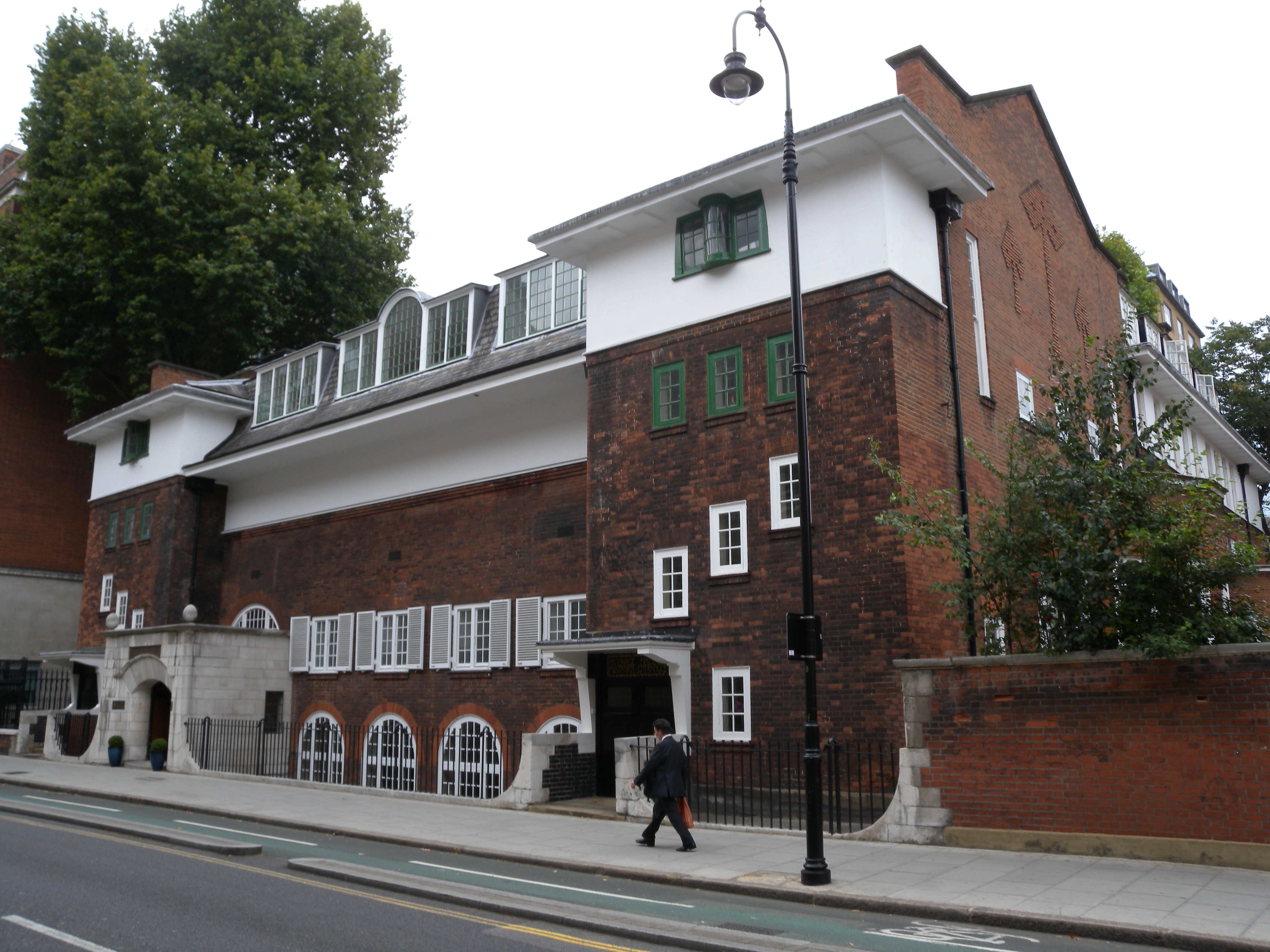 Mary Ward House is a Grade I listed building built in 1898. Mary Ward, the novelist and social reformer, was the inspiration behind centre.